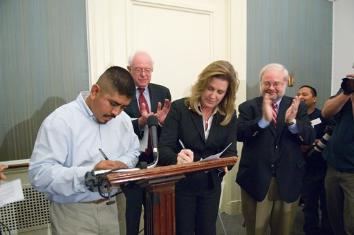 Photo of Sen. Bernie Sanders overseeing the signing of a labor agreement between the Coalition of Immokolee Workers and Burger King Holdings, parent of Burger King Restaurants